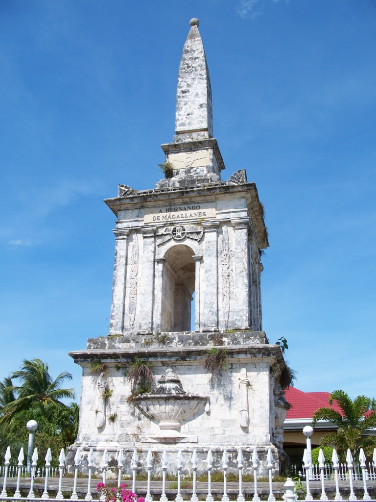 Magellan monument at the Mactan Shrine, Cebu, Philippines